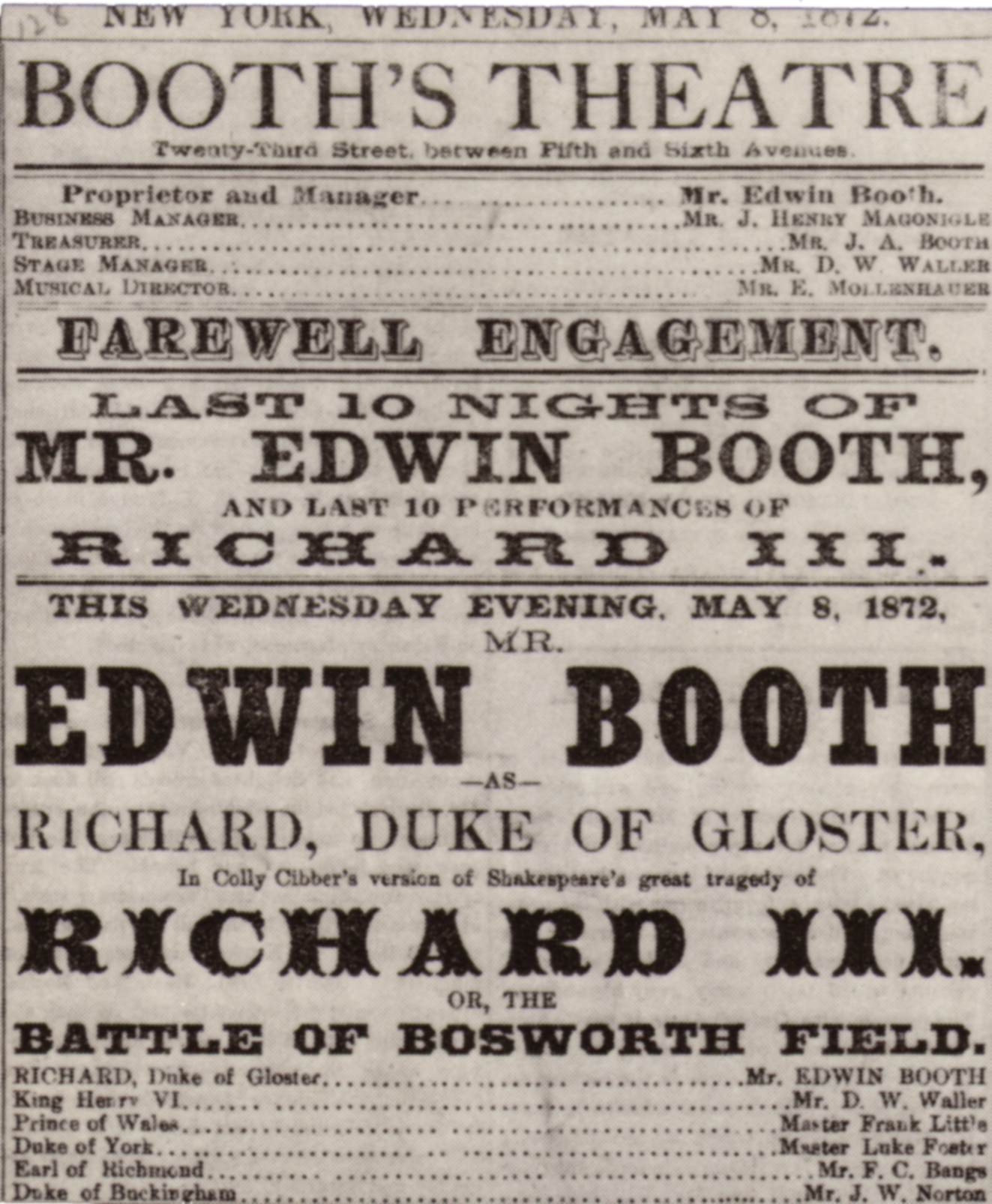 Playbill advertising American actor Edwin Booth in Shakespeare's Richard III in 1872 at Booth's Theater, New York City